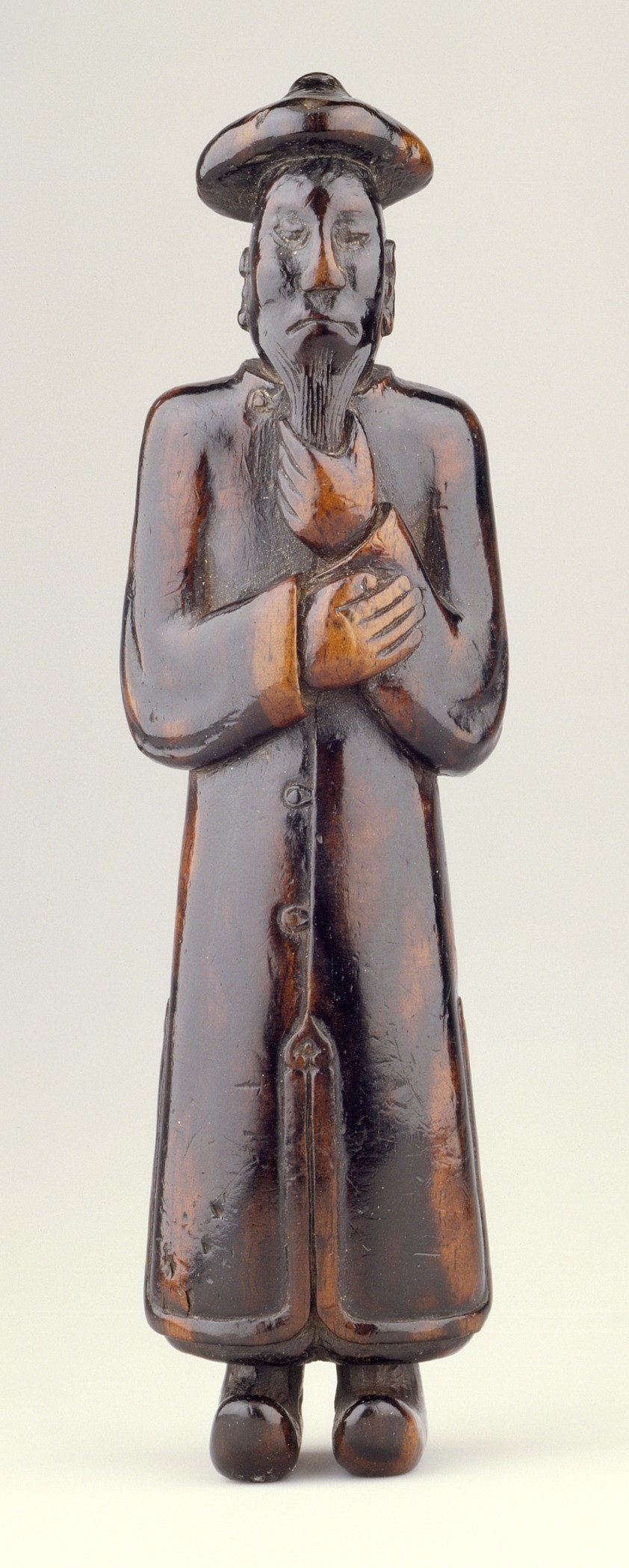 Japan, 18th century Costumes; Accessories Wood 4 7/8 x 1 3/8 x 15/16 in. (12.5 x 3.5 x 2.3 cm) Raymond and Frances Bushell Collection (M.87.263.3) Japanese Art Currently on public view: Pavilion for Japanese Art, floor 2